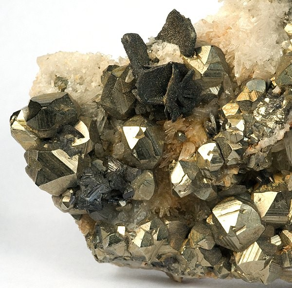 Chalcocite, Covellite, Pyrite, Quartz Locality: Leonard Mine, Butte, Butte District, Silver Bow County, Montana, USA (Locality at ) Size: 8.0 x 5.9 x 2.4 cm. An outstanding, old-time Butte combination and pseudomorph specimen from the Leonard Mine. The highlight of this fine piece is the top-left cluster of chalcocite after sharp covellite blades. The quartz plate matrix is stunningly and richly sprinkled with highly lustrous, striated, brass-yellow pyrite cuboctahedrons. This is classic combination material from the renowned locale and is from the Dr. Miguel Romero Collection formerly on display at the University of Arizona Science Center for the last 12 years.